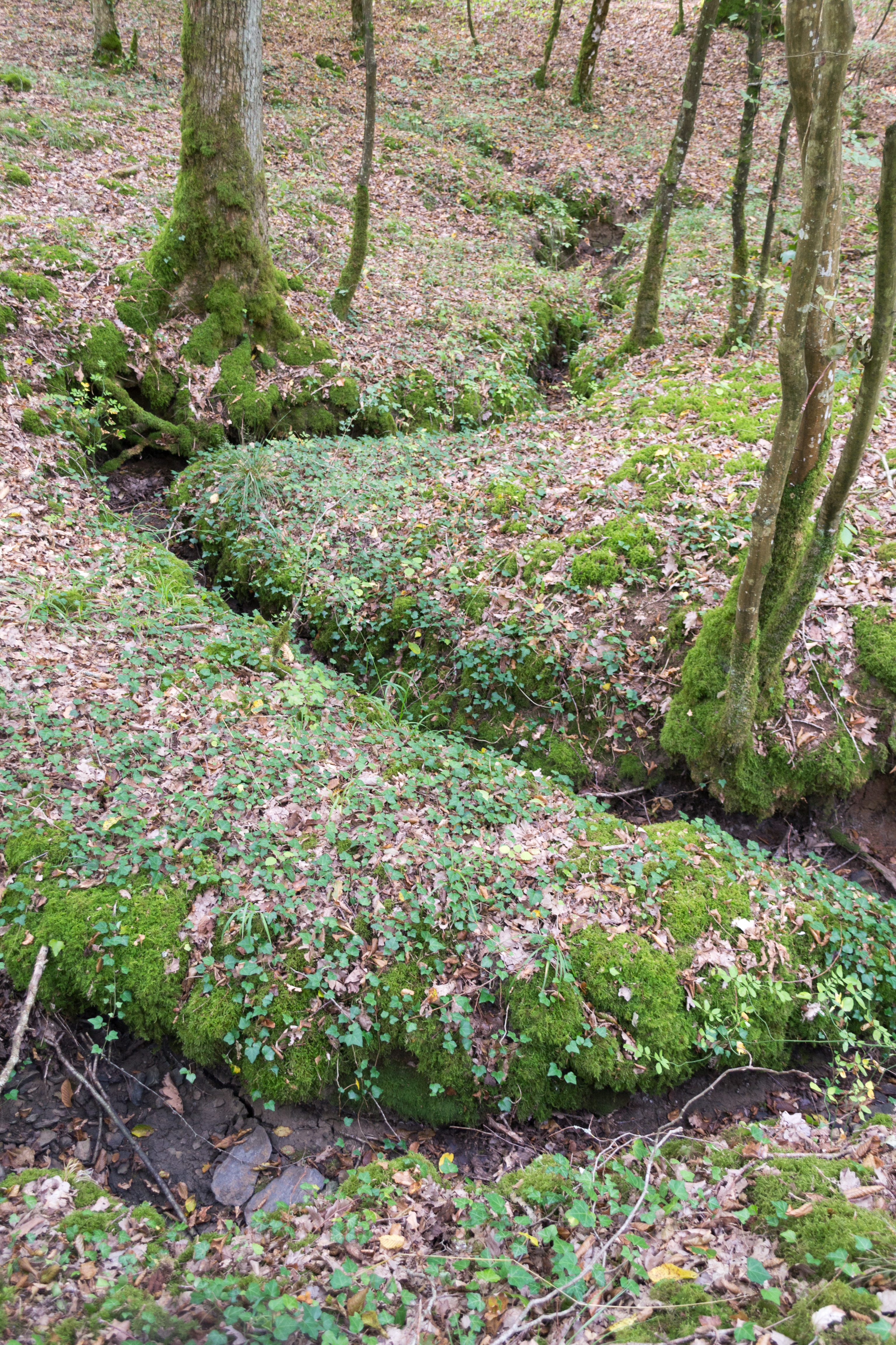 Intermittent forest stream meanders